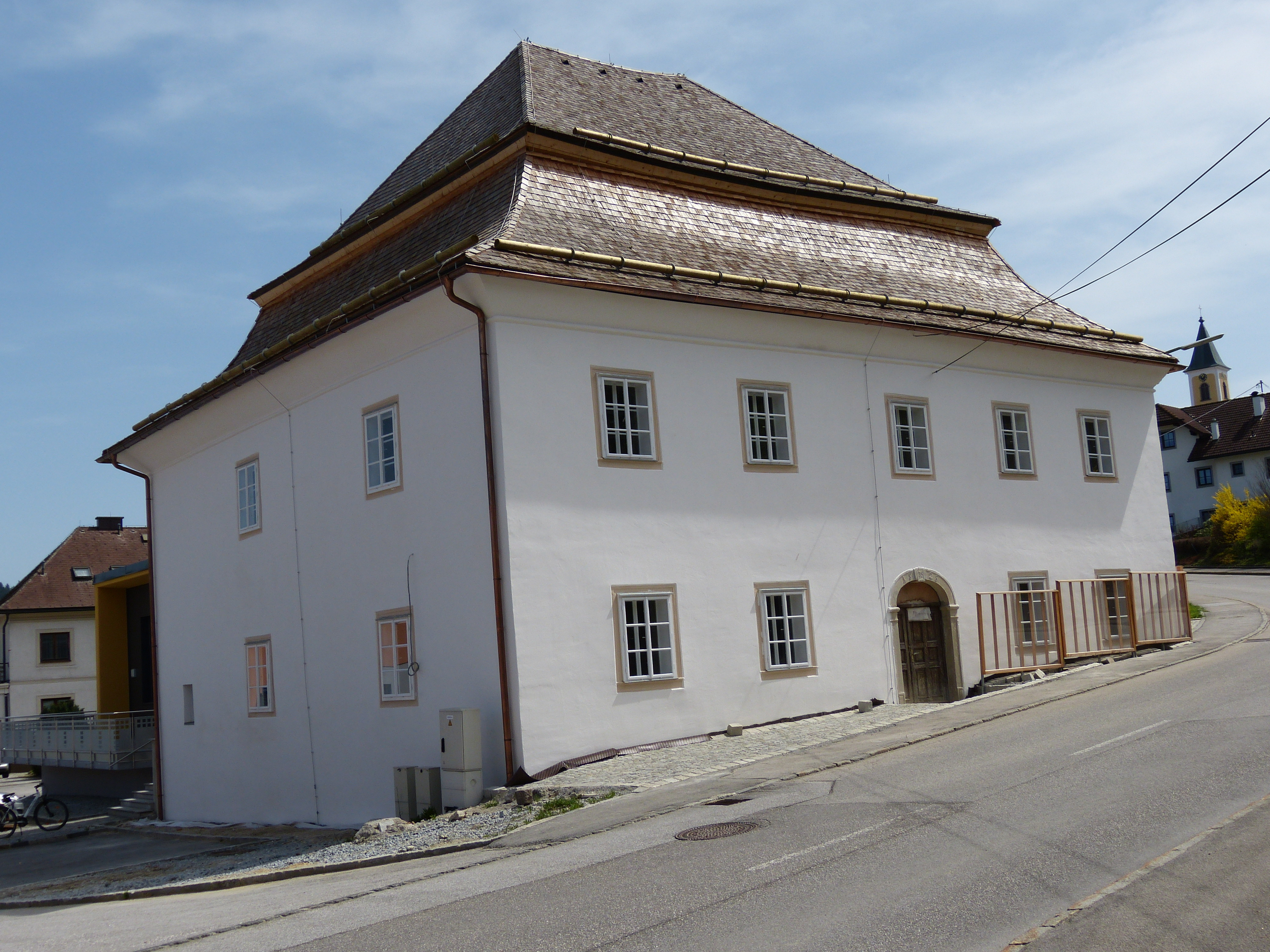 Peilstein ( Upper Austria ). So called "Peilstein castle" ( 1754 ).